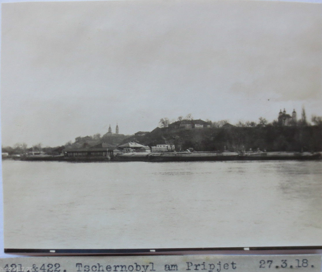 Photo of Ukraine from an album of an unknown German soldier taken during World War I.